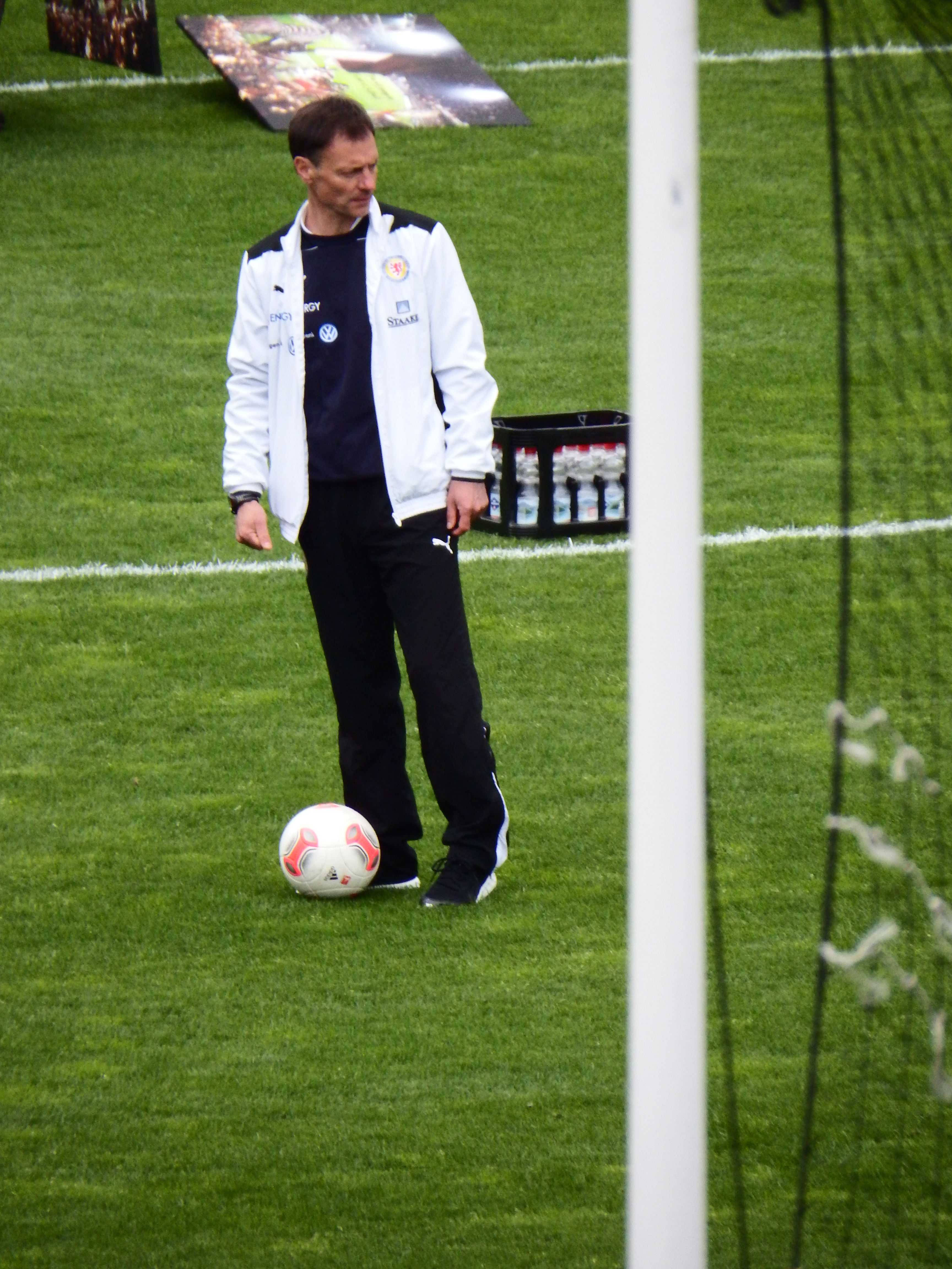 Darius Scholtysik as Assistent-Coach of Eintracht Braunschweig